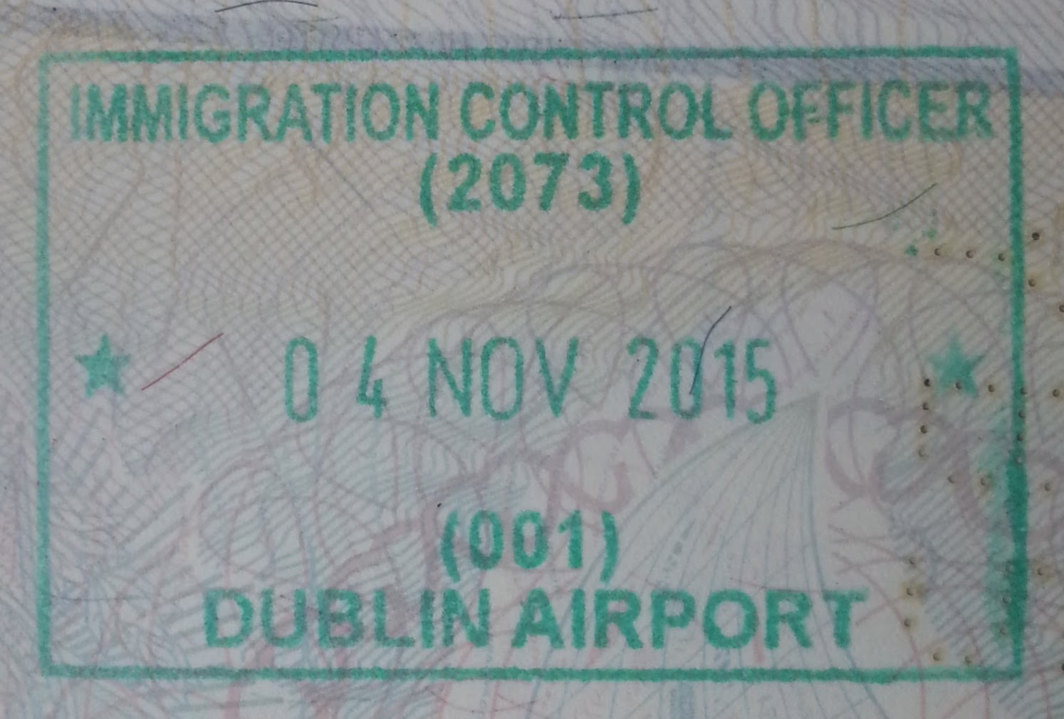 Irish immigration stamp issued at Dublin Airport